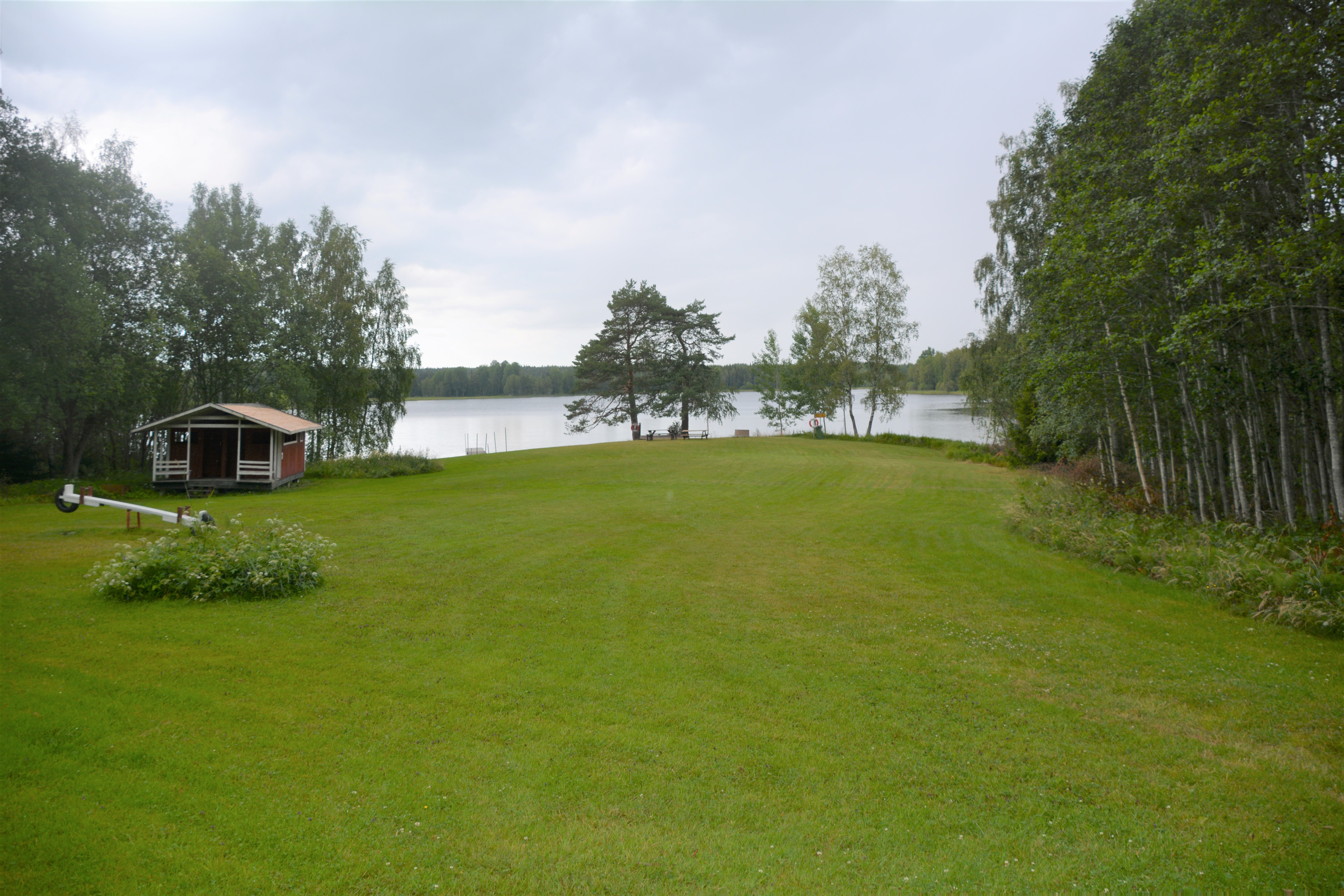 Bågenbadet, Karbenning, public beach